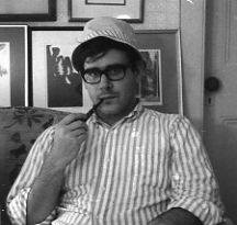 Photograph of Carroll Jones III taken in late 1960's, probably around age 24-25 following art school at the University of Hartford